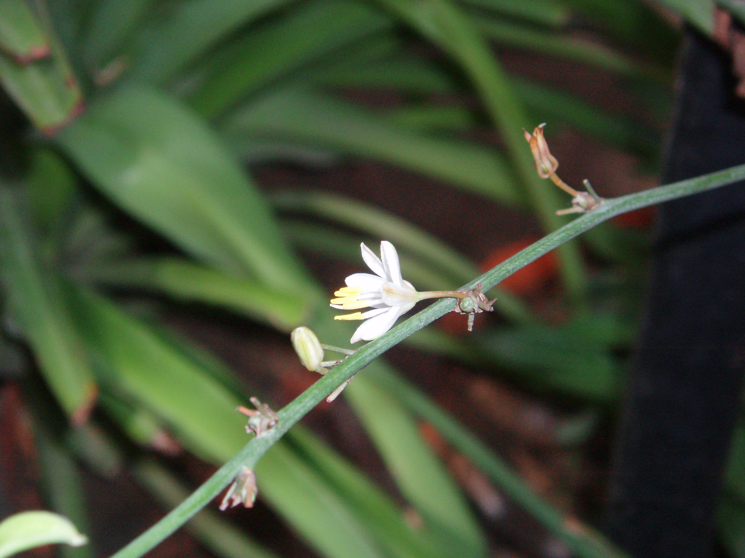 Spider plant flowers